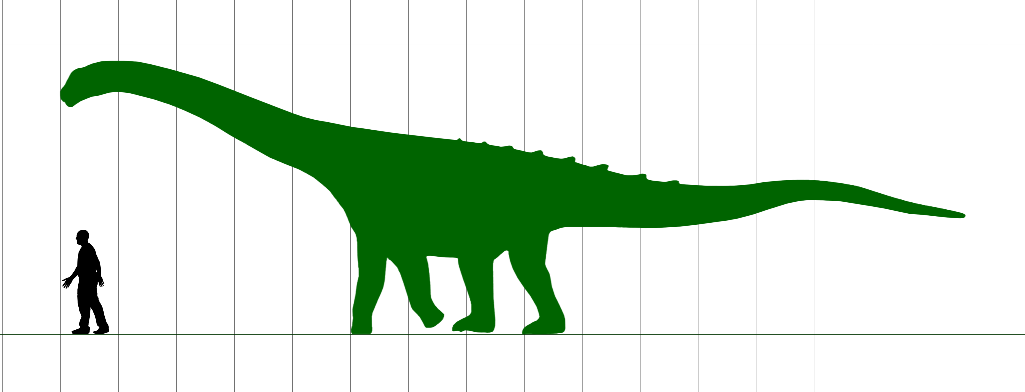 Scale diagram of Ampelosaurus (16 meters along vertebrae sensu Paul 2016) and a human (1.8 meters tall). Ampelosaurus comes from File:AmpelosaurusDB.jpg Human comes from by Andy Farke.